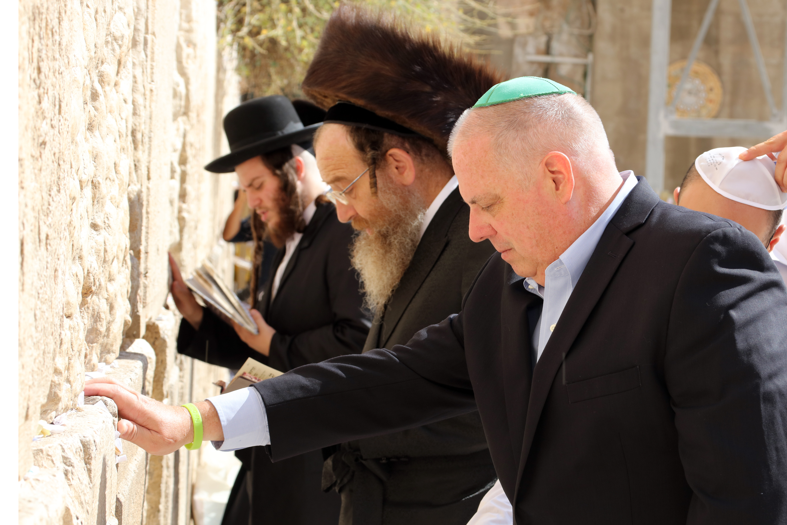 Governor Hogan Tours And Places A Preyer Note In the Western Wall by Steve Kwak at Old City Of Jerusalem Jerusalem